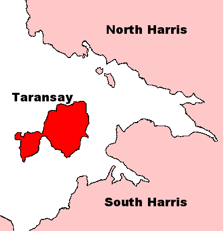 Traced from another map by User:Angela.